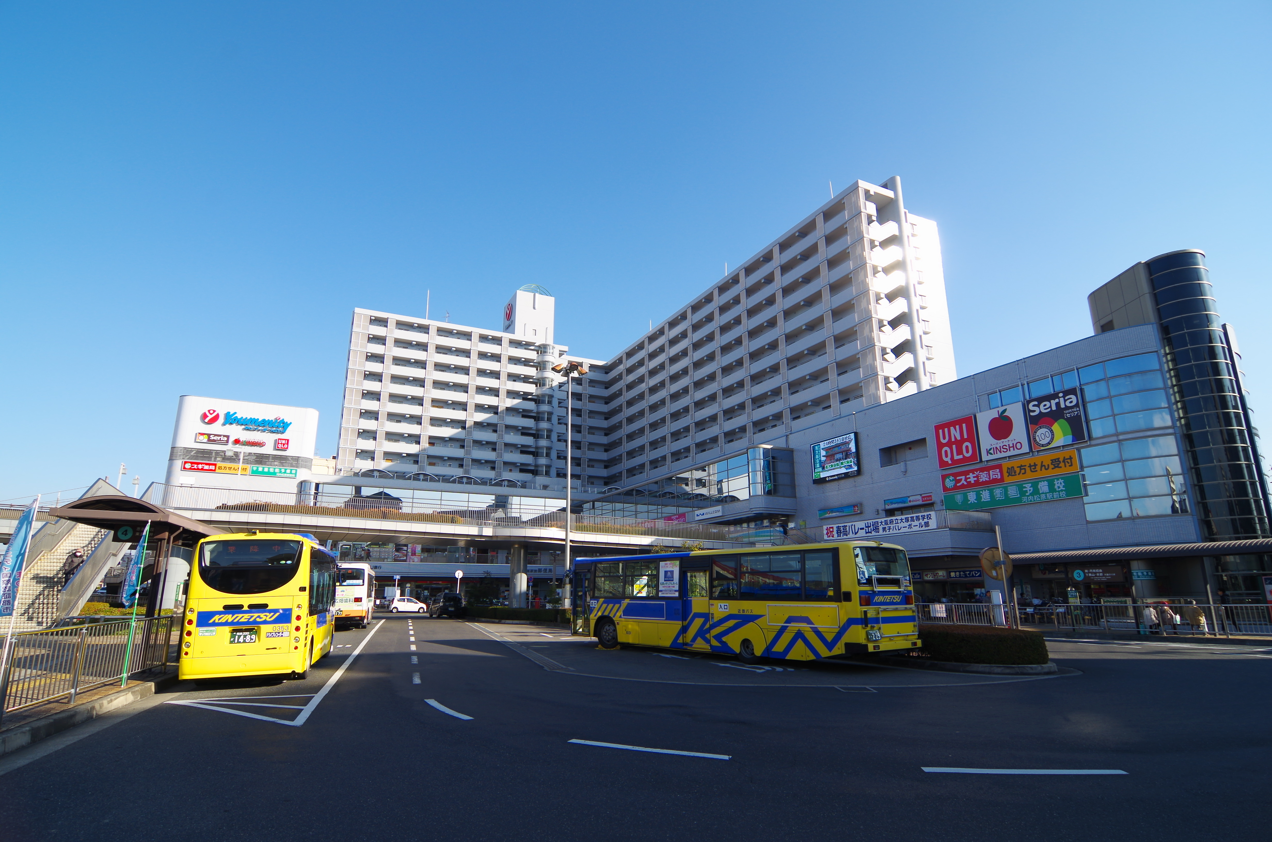 河内松原駅前 Traffic circle of Kawachi-Matsubara sta. 2014.1.23